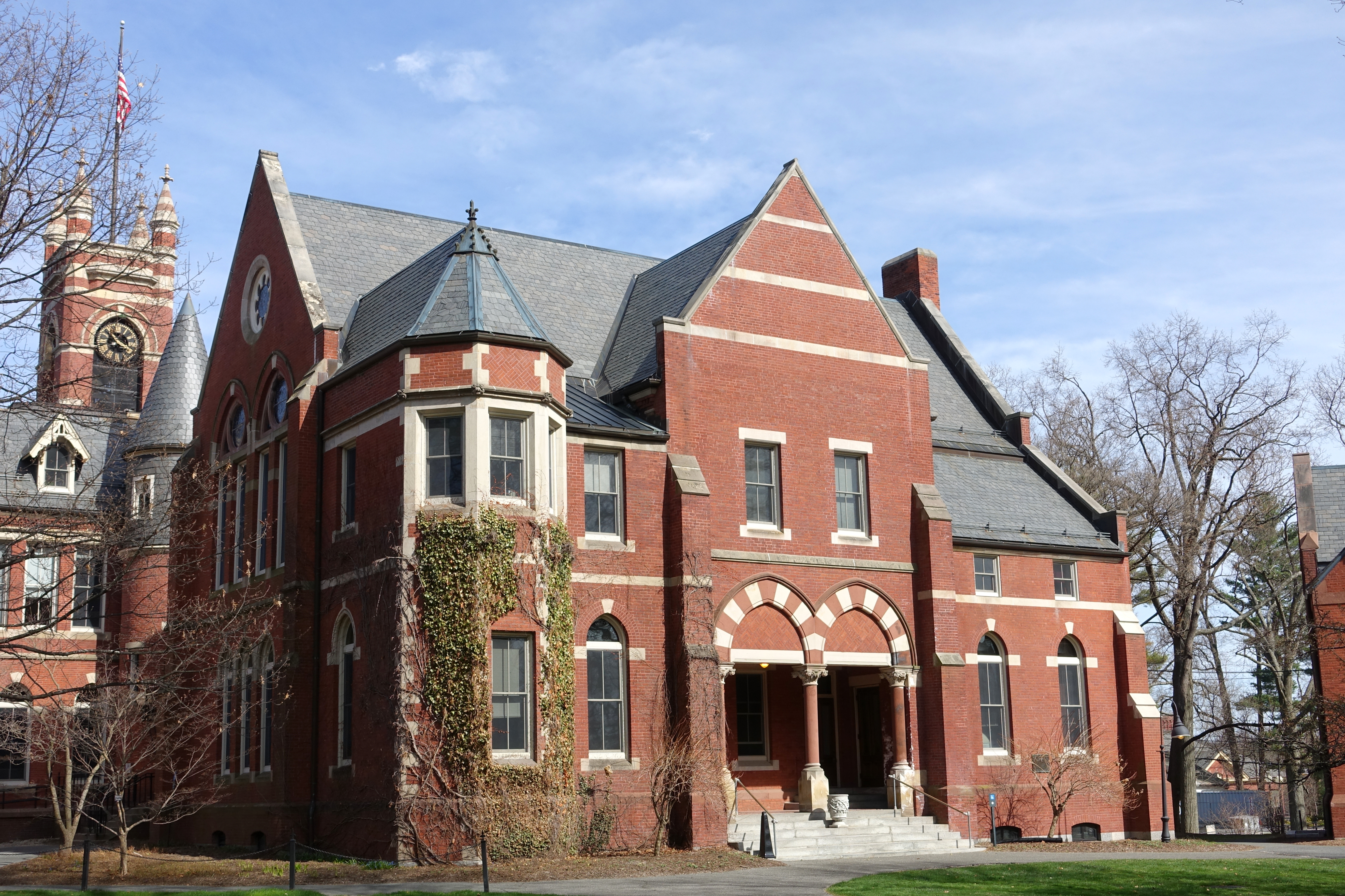 College Hall - Smith College - Northampton, Massachusetts, USA.